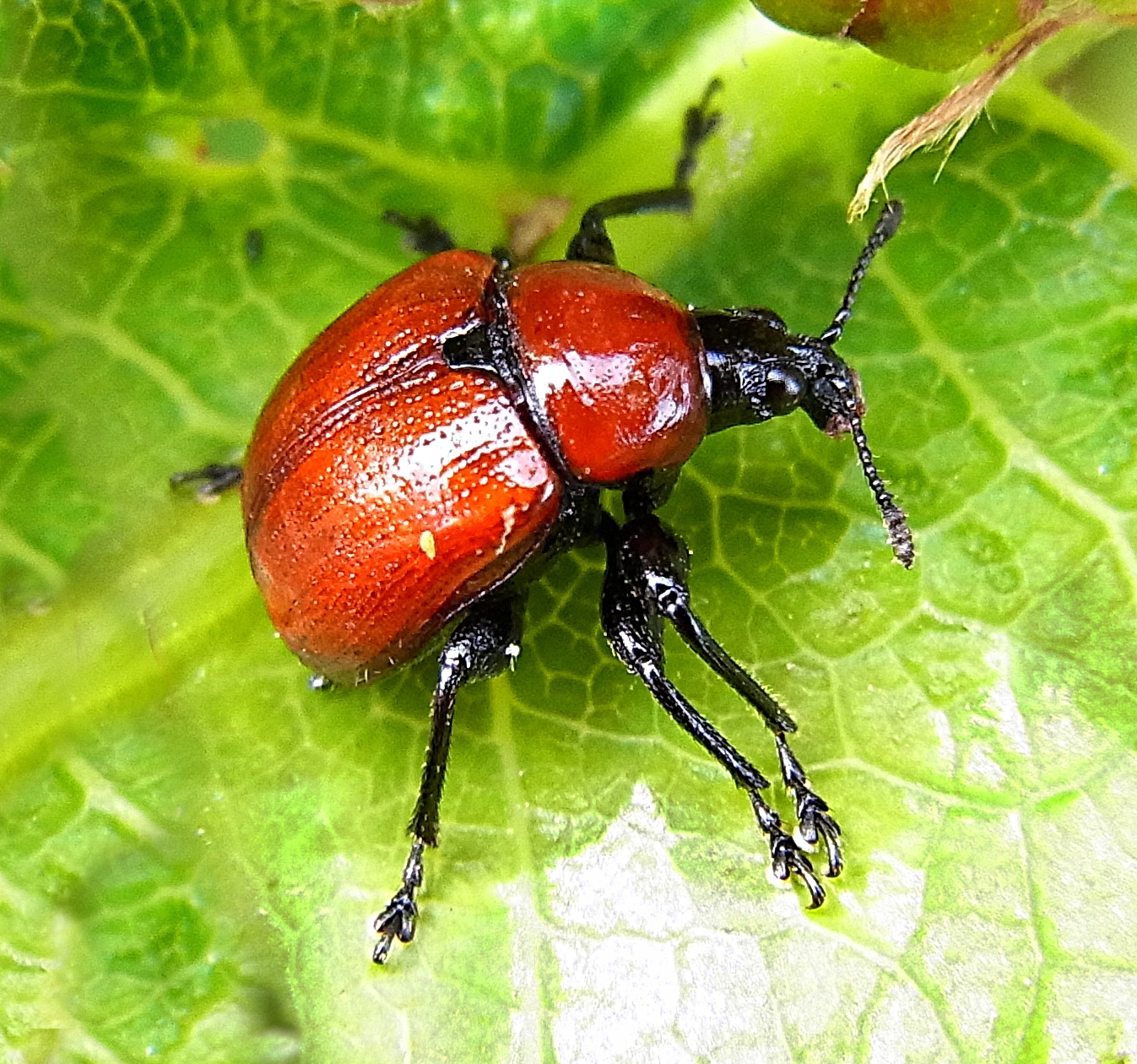 Attelabus nitens from France Monts de l'Espinouse at 2011-06-11